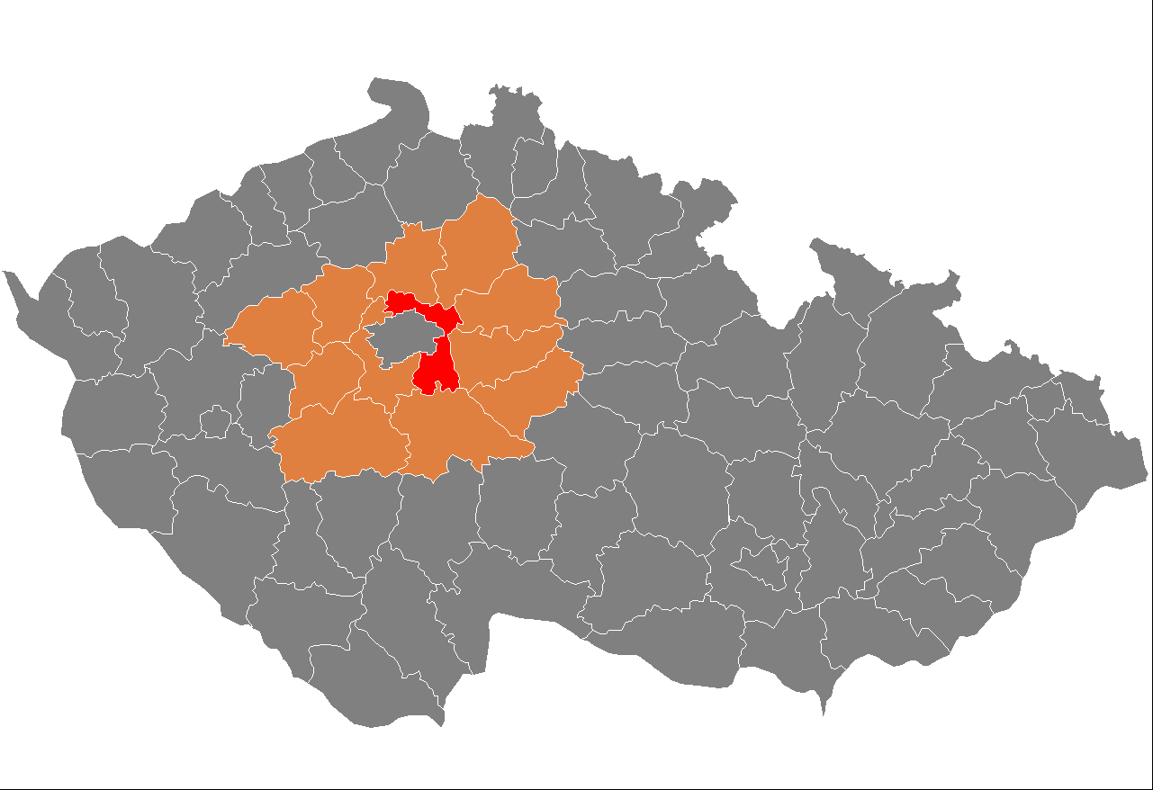 Location of Prague-East District in Central Bohemian Region and the Czech Republic. The map shows extent of the district as until December 31, 2006.